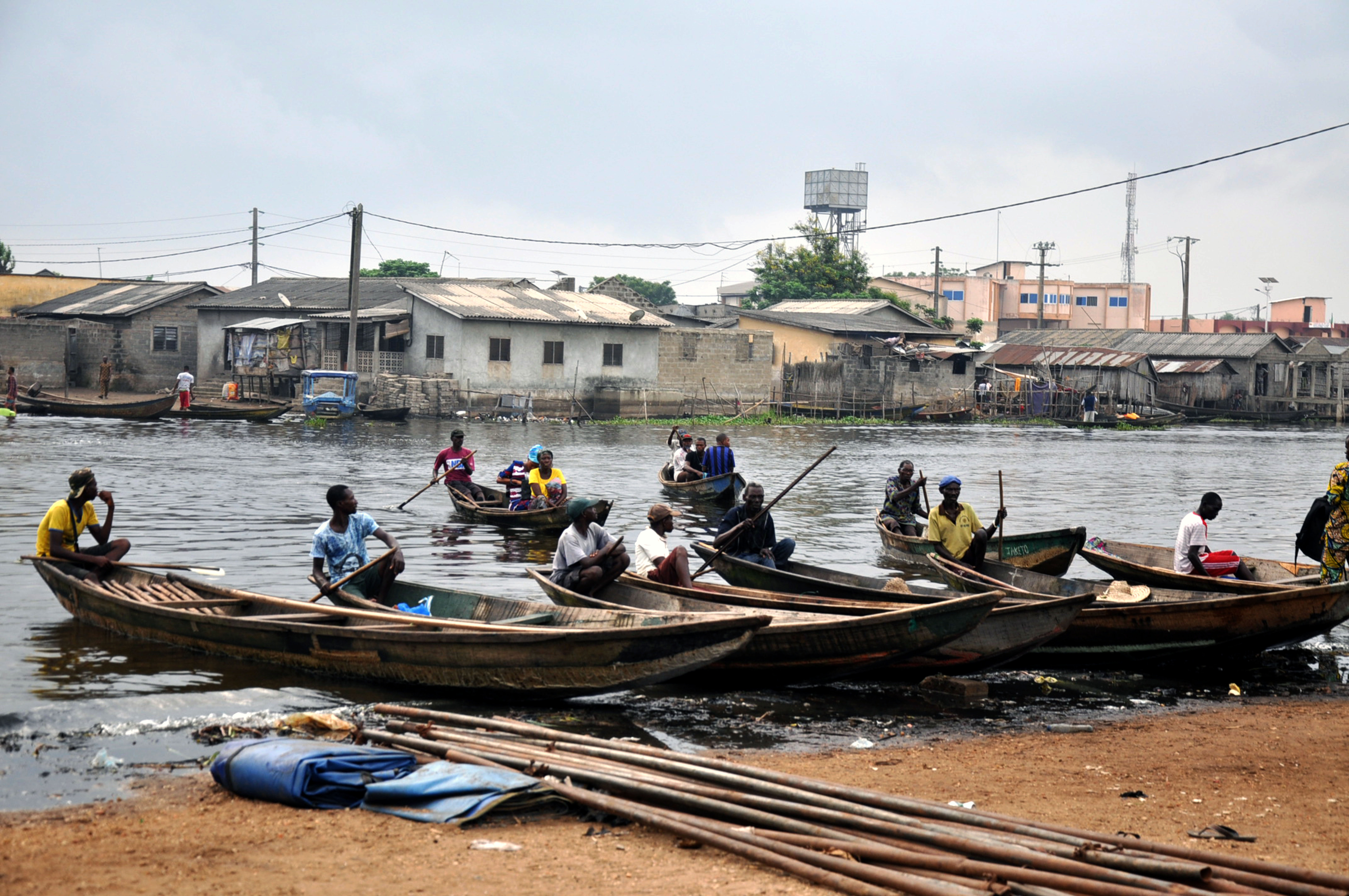 the river crossing of the Benino-Togolese border This is an image with the theme "Africa on the Move or Transport" from: Benin